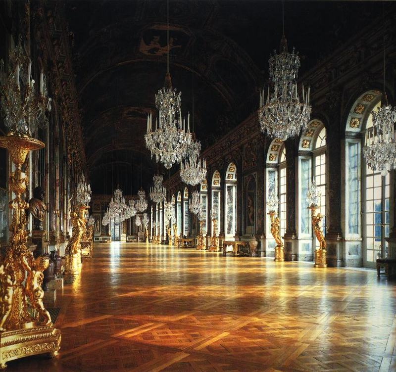 Hall of Mirrors, Palace of Versailles